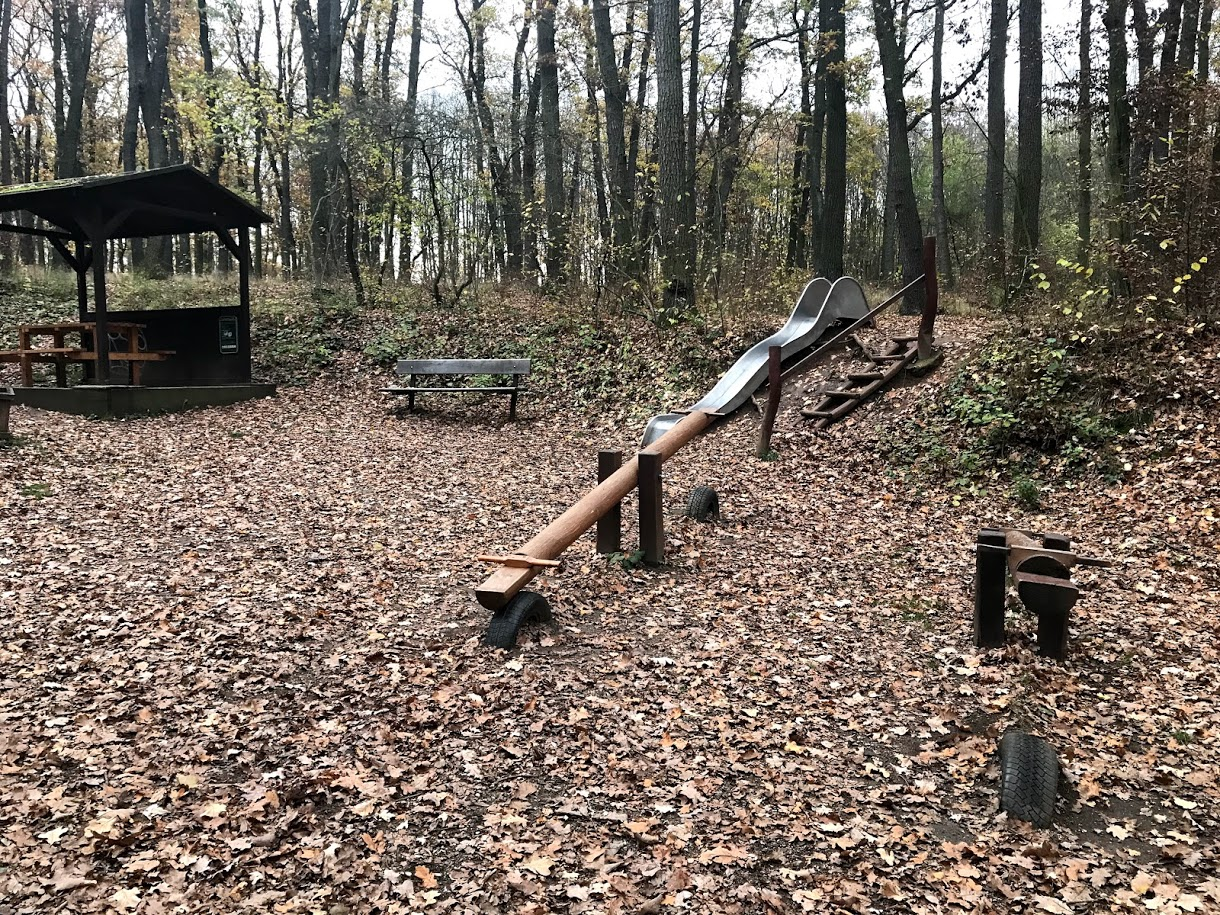 Dětské hřiště s altánem na posezení v pozadí.